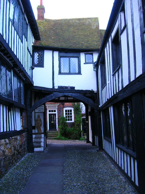 Mermaid Passage This alleyway is also cobbled and connects High Street to the courtyard of the Mermaid Inn 300143. The Inn is of the 15t century with 13th century cellars. The two added parts at the back are circa 16th century.